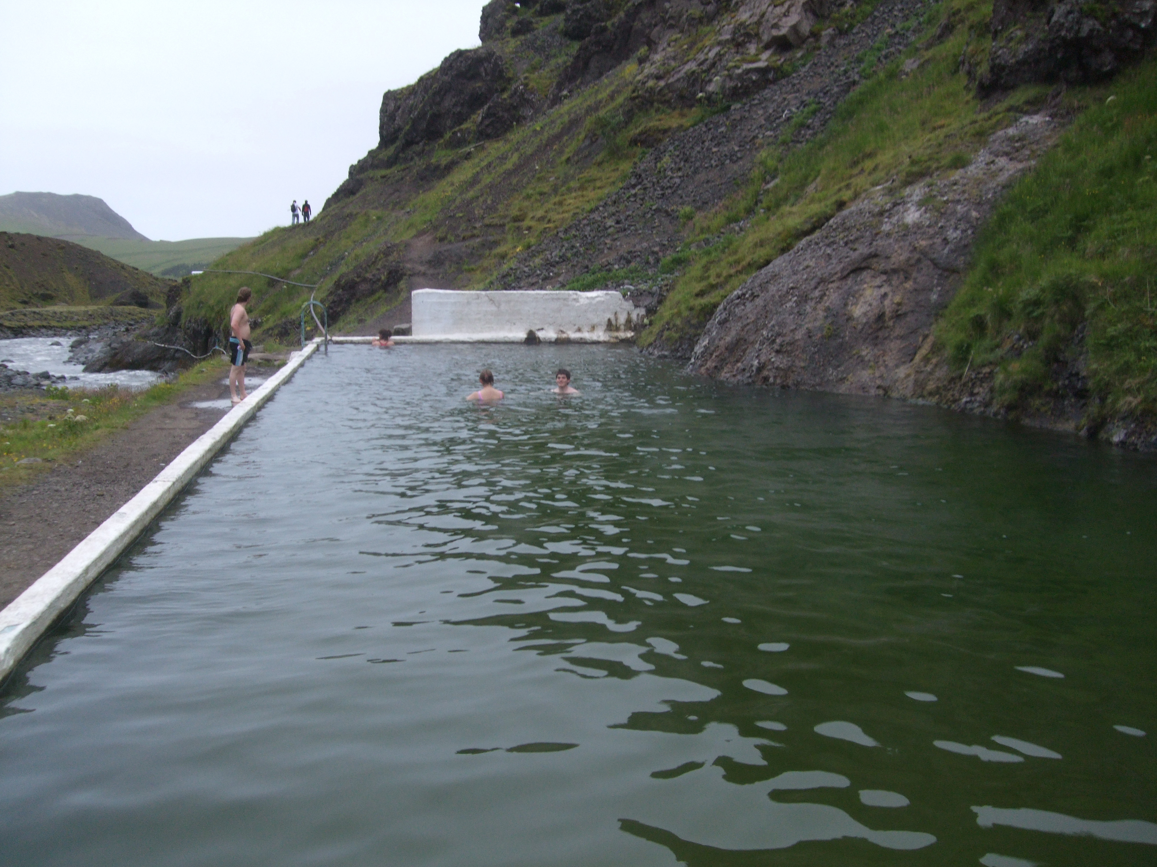 A closeup of the surface of the water at Seljavallalaug, Iceland.